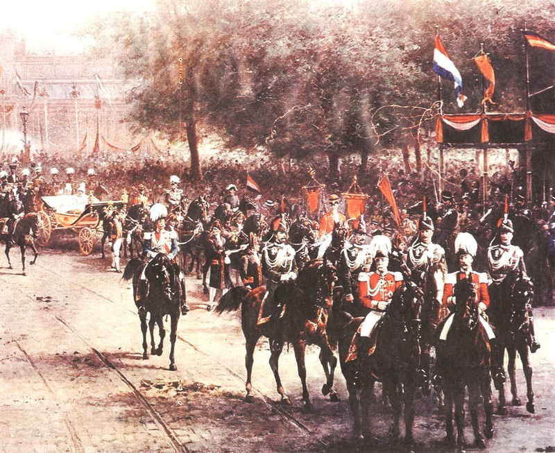 Kroning vnn Wilhelmina